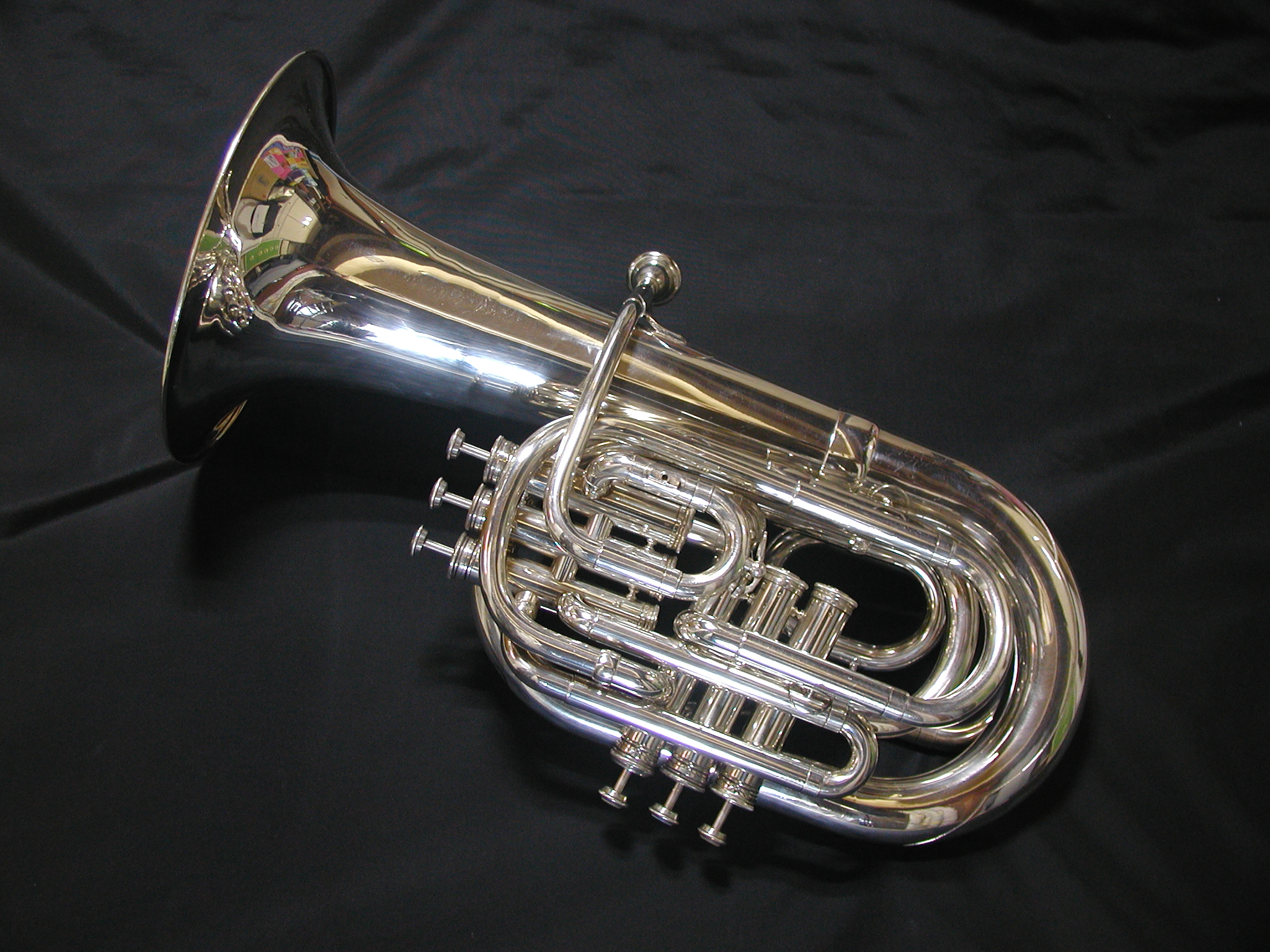 French Tuba A.COURTOIS 168